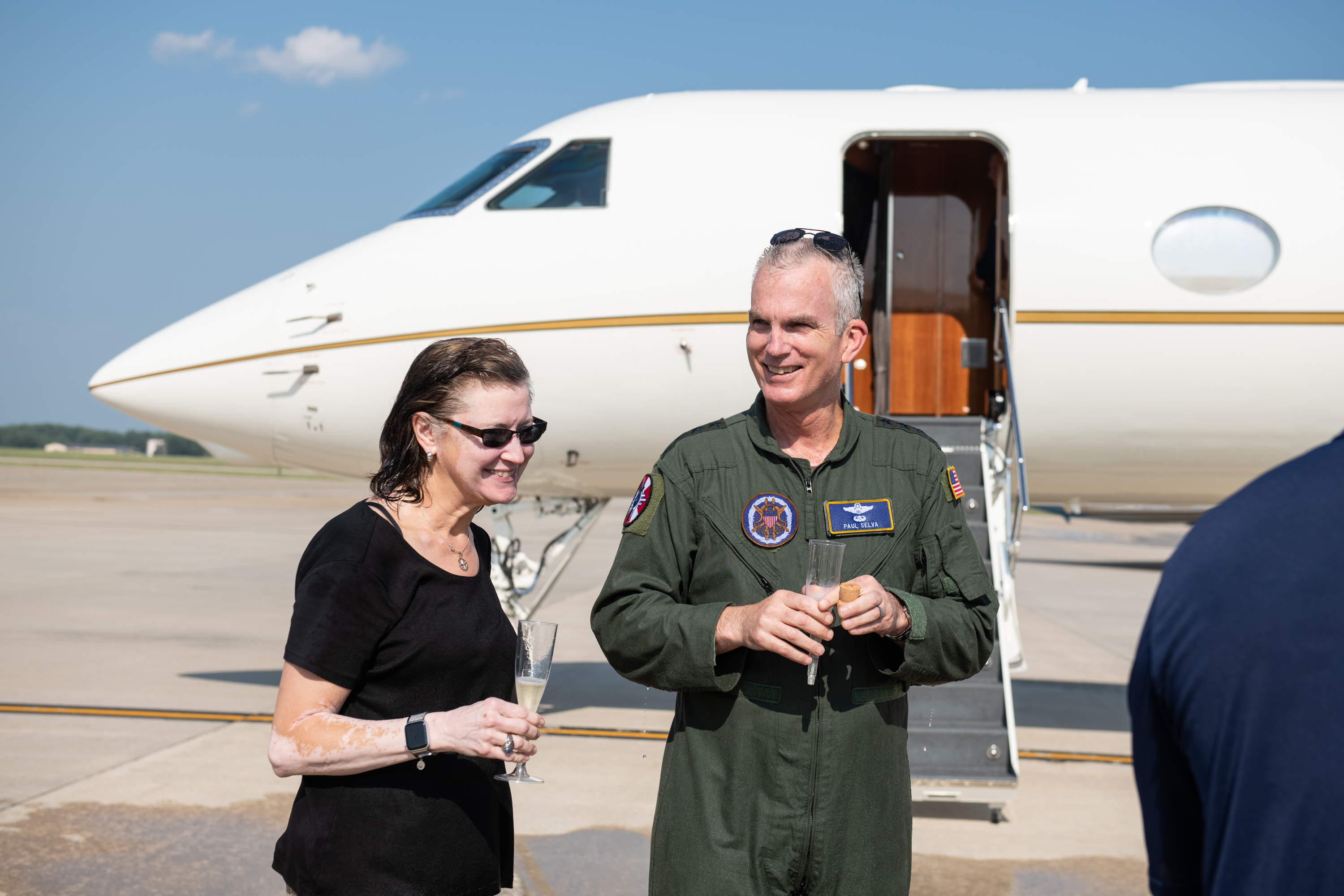 Members of his staff hose down Air Force Gen. Paul J. Selva, vice chairman of the Joint Chiefs of Staff; and his wife, Mrs. Ricki Selva, with champagne has they step off a C-37 aircraft after their final flight July 20, 2019, at Joint Base Andrews. Gen. Selva retires July 31st, 2019, after 39 years of service. (DoD Photo by U.S. Army Sgt. James K. McCann)